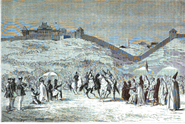 Funeral feast in Shusha. The final of dramatic representation